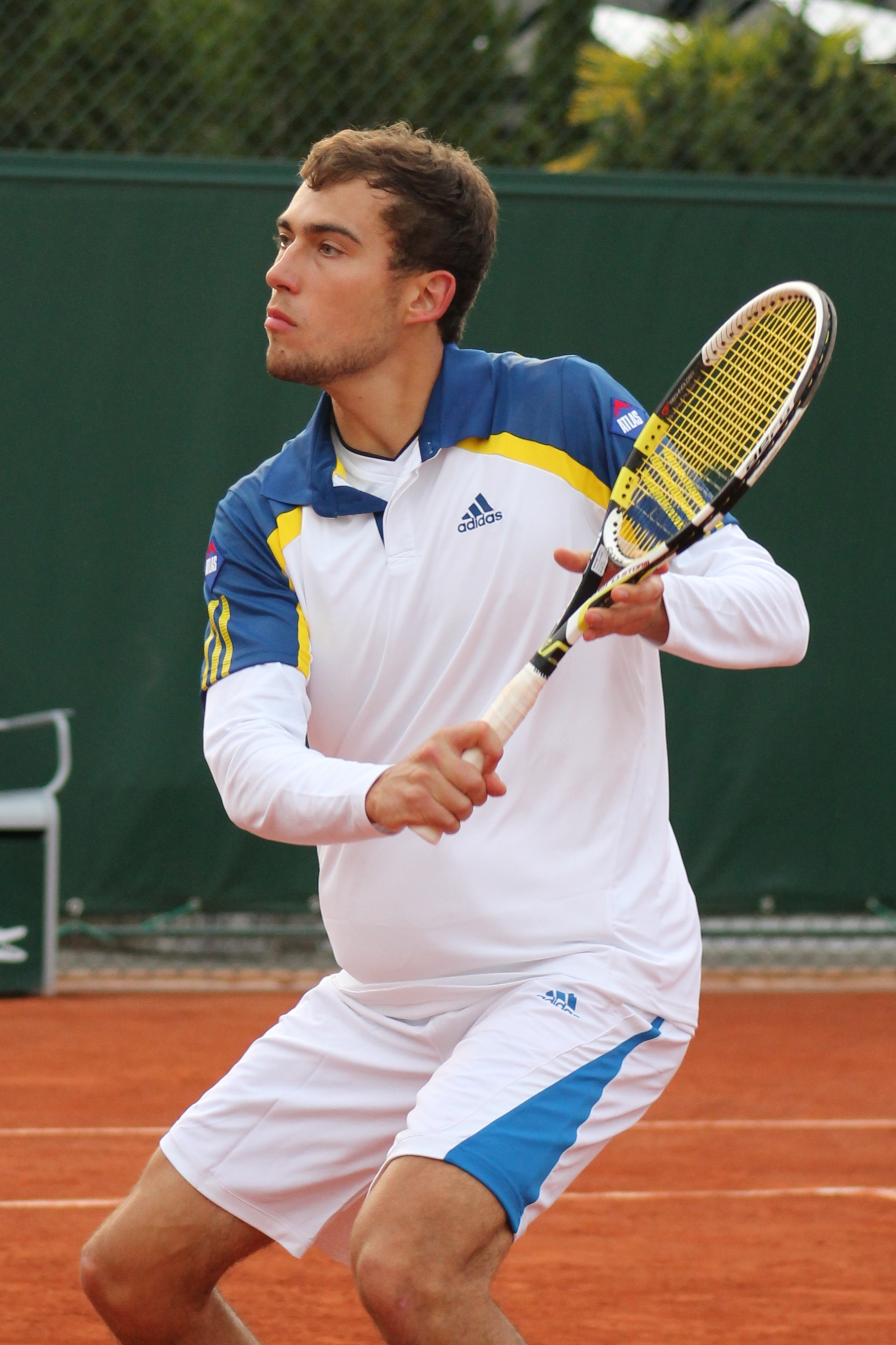 Jerzy Janowicz playing in Mens Doubles first round at Roland Garros 2013, Court 11; partner was Tomasz Bednarek (POL); opponents were Mahesh Bhupati (IND) & Rohan Bopanna (IND)